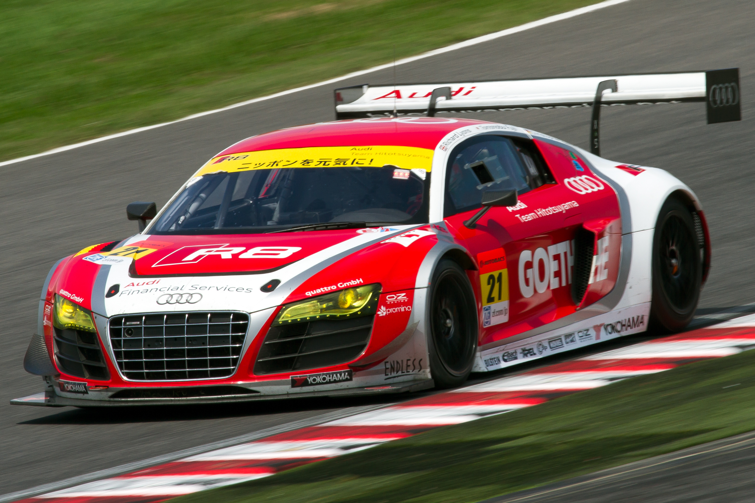 Super GT 2014 Rd.6 Suzuka 1000km: Richard Lyons (Audi Sport Team Hitotsuyama)